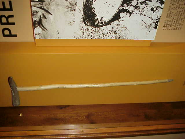 Root digging stick at Rocky Reach Dam Museum 2